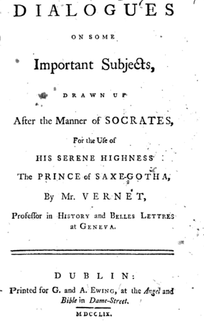 Jacob Vernet: Dialogues on some important subjects